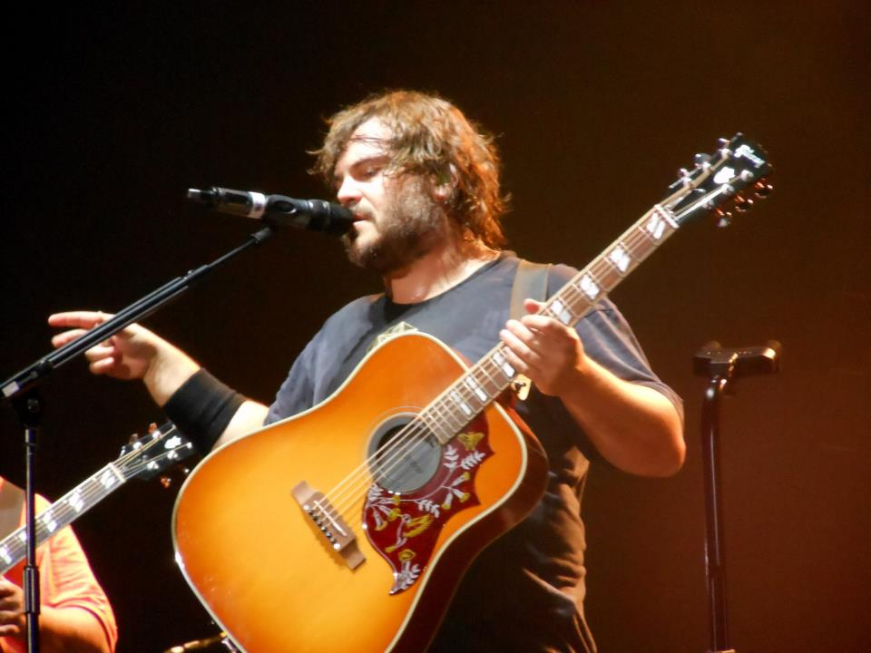 Jack Black in concert with Tenacious D in Milan